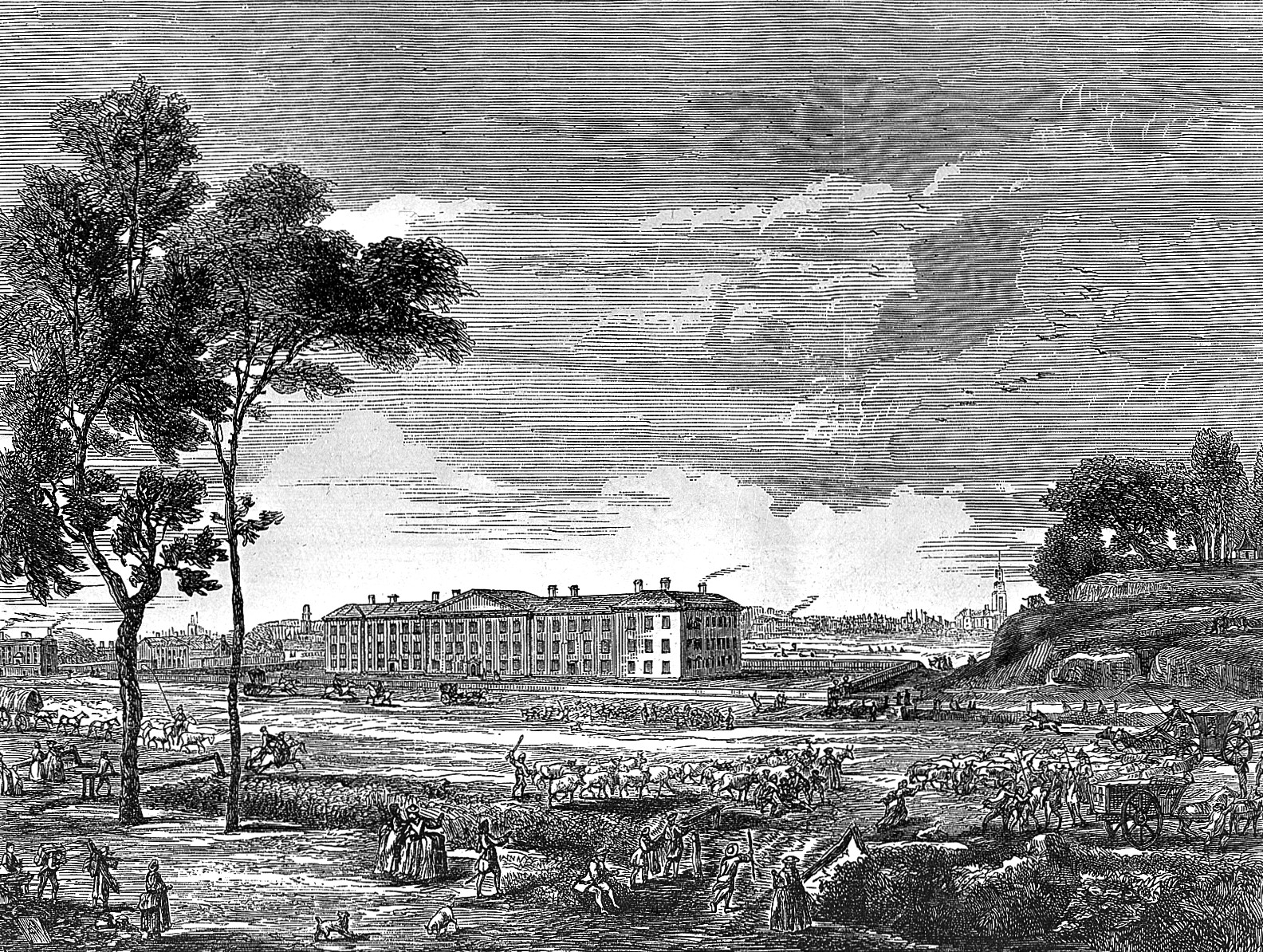 The London Hospital, Whitechapel: seen from the northern side of the Whitechapel Road. Wood engraving, after an engraving of c.1753. Iconographic Collections Keywords: Institutions